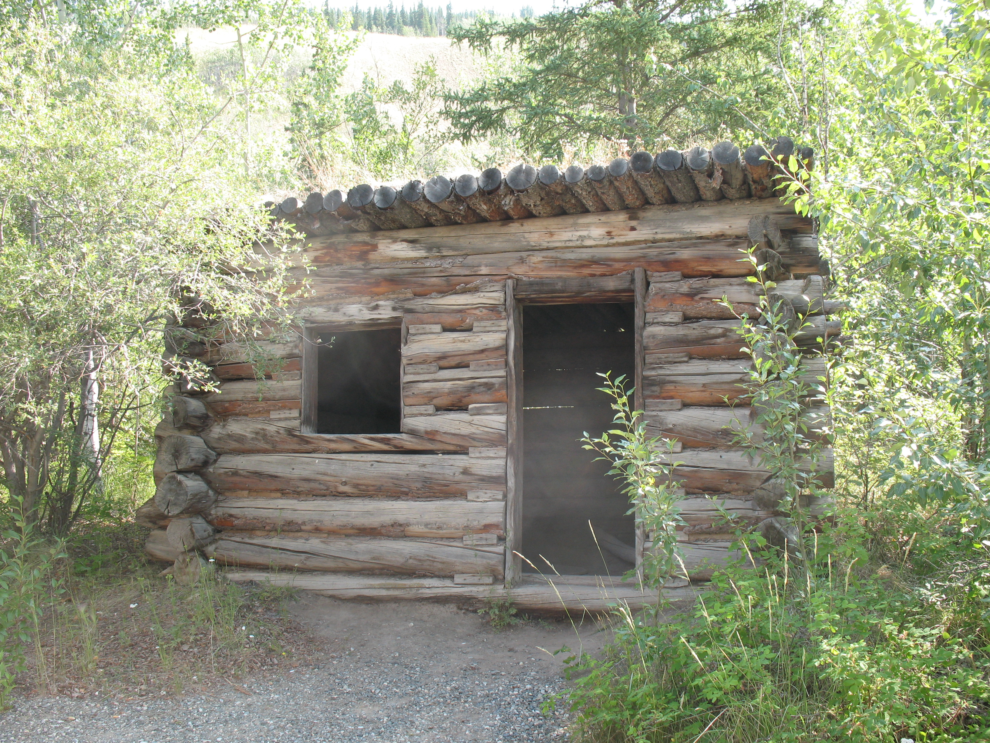 structure behind Montague Roadhouse